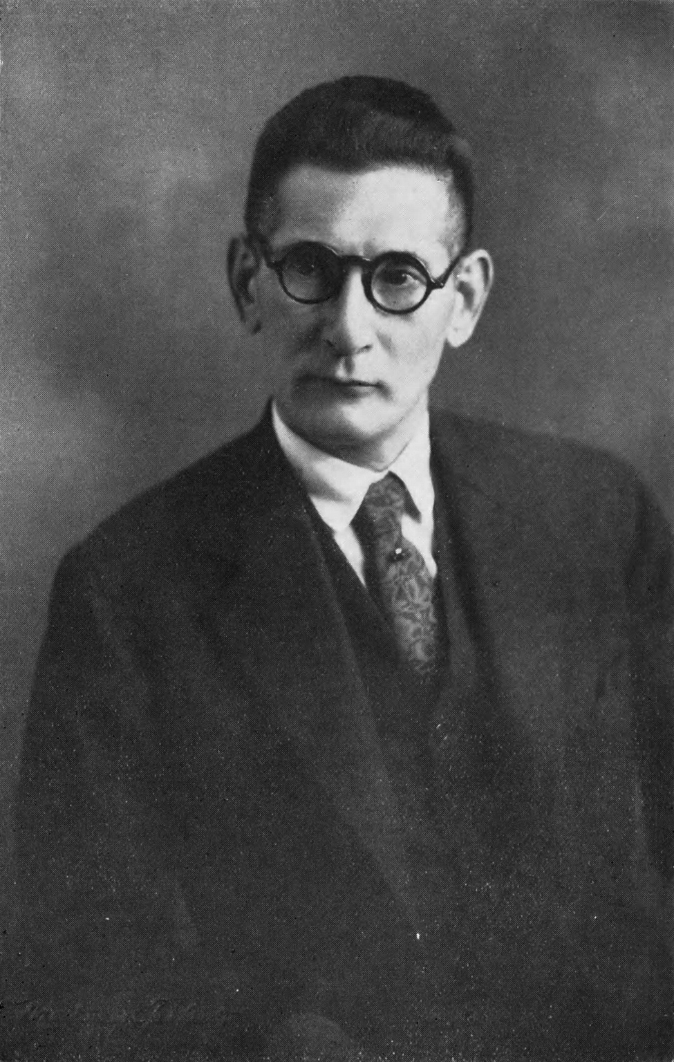 Portrait of Okawa Shumei (大川周明, 1886 – 1957)